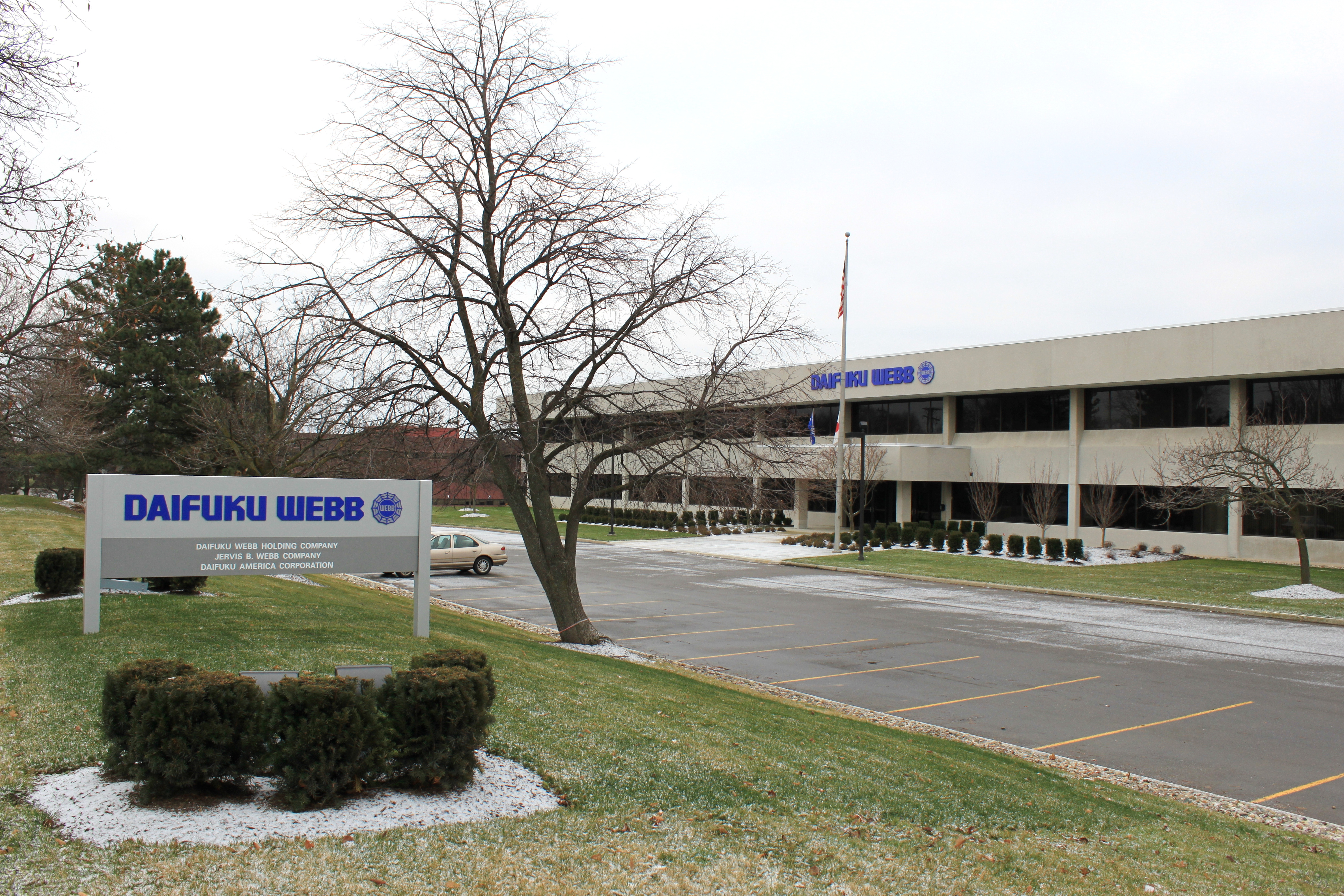 Jervis W. Webb Company headquarters building, 34375 West 12 Mile Road, Farmington Hills, Michigan.